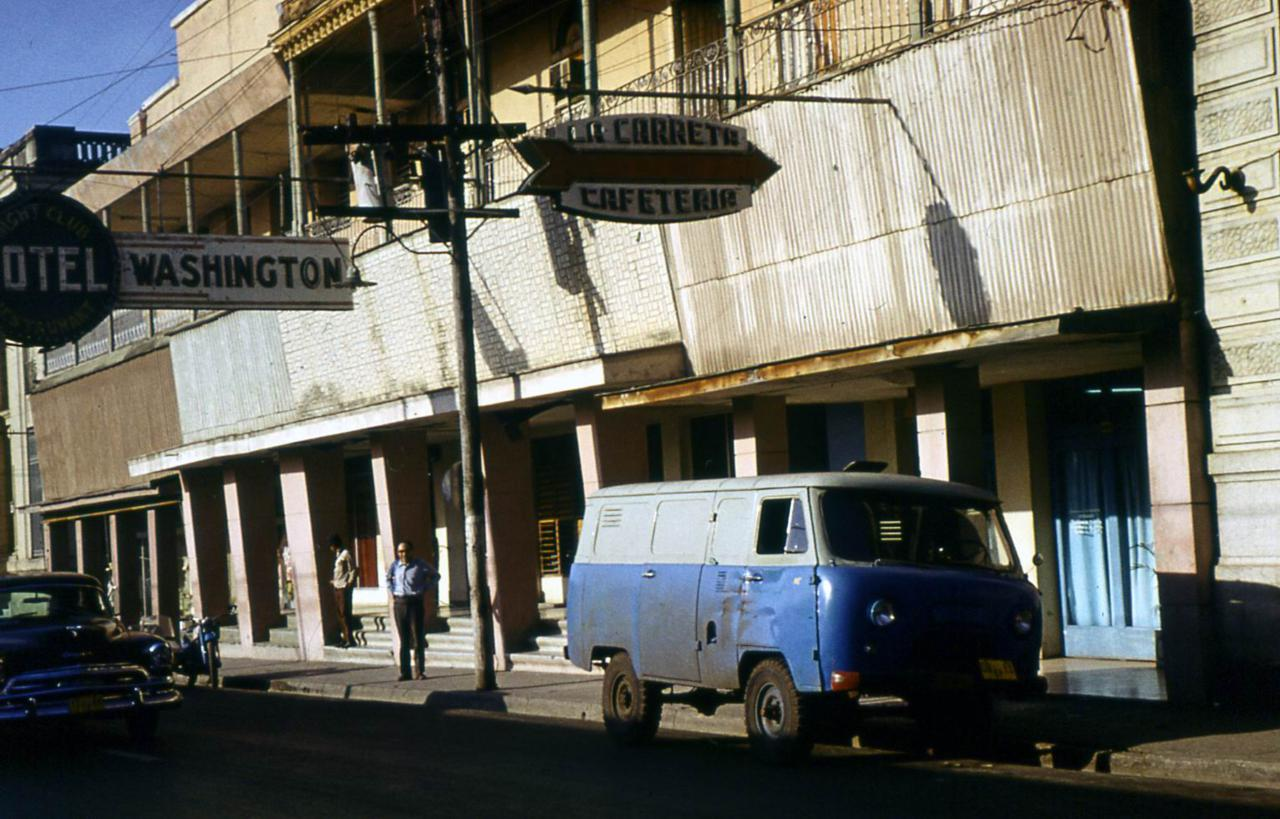 Guantanamo City